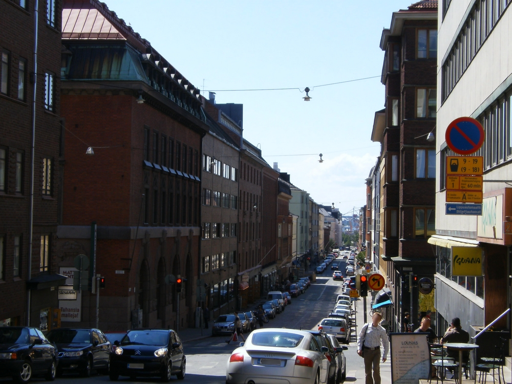 Kalevankatu, Helsinki, Finland